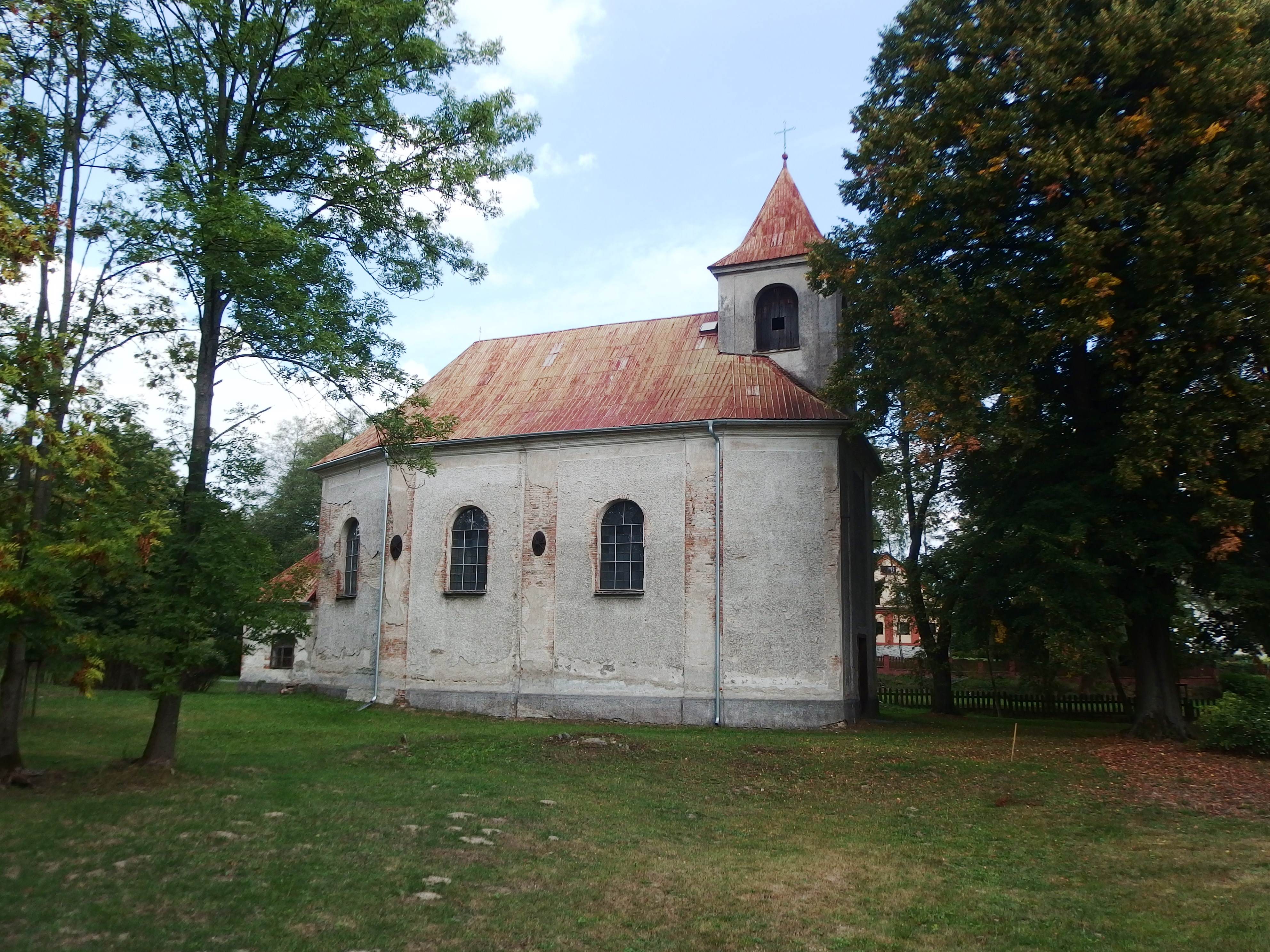 Šternberk, Olomouc District, Czech Republic, part Těšíkov.